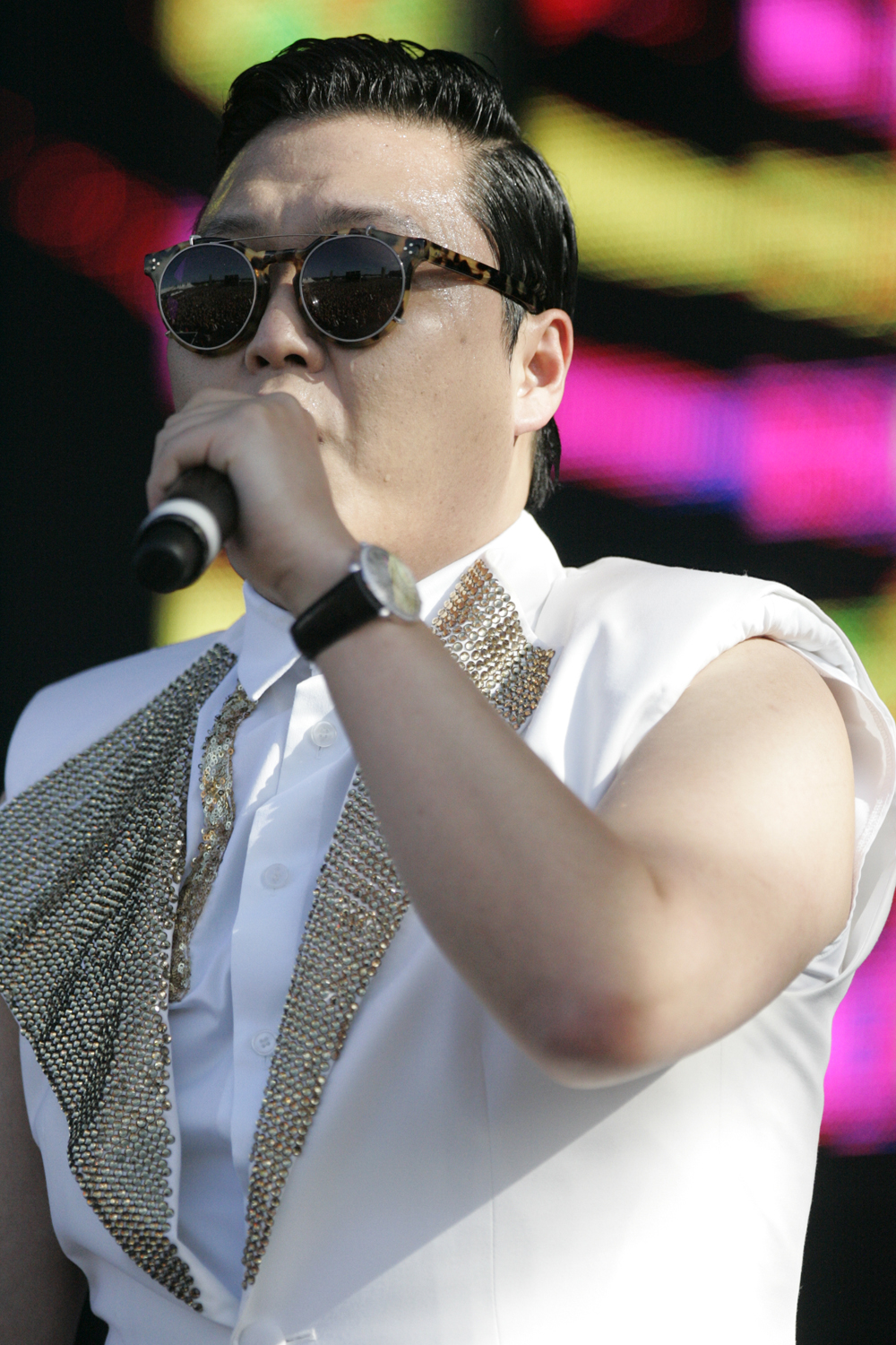 Future Music Festival, Randwick, Sydney, Australia...